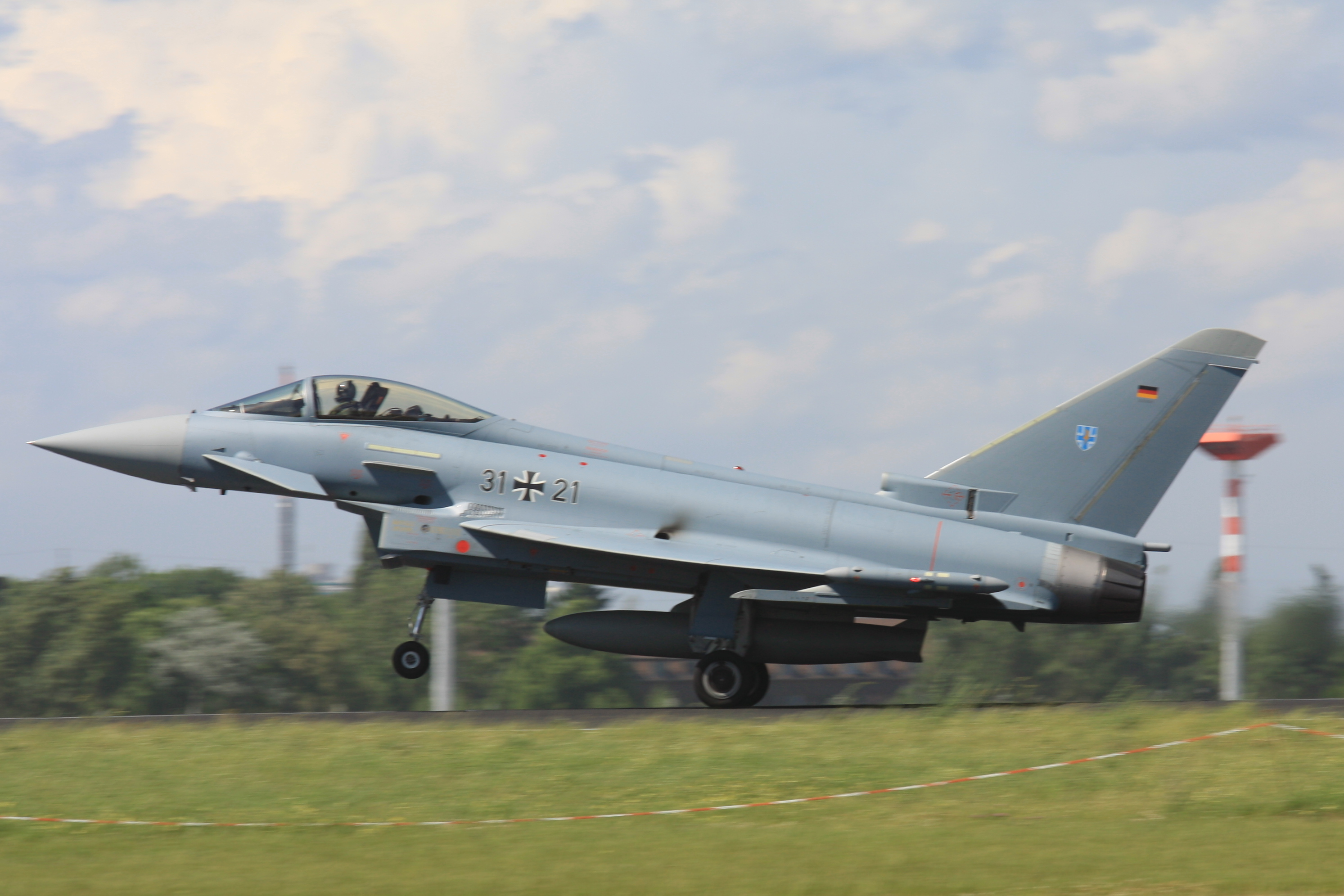 Eurofighter of the German Luftwaffe at Berlin Schönefeld Airport (picture taken during the International Air and Space Exhbition).